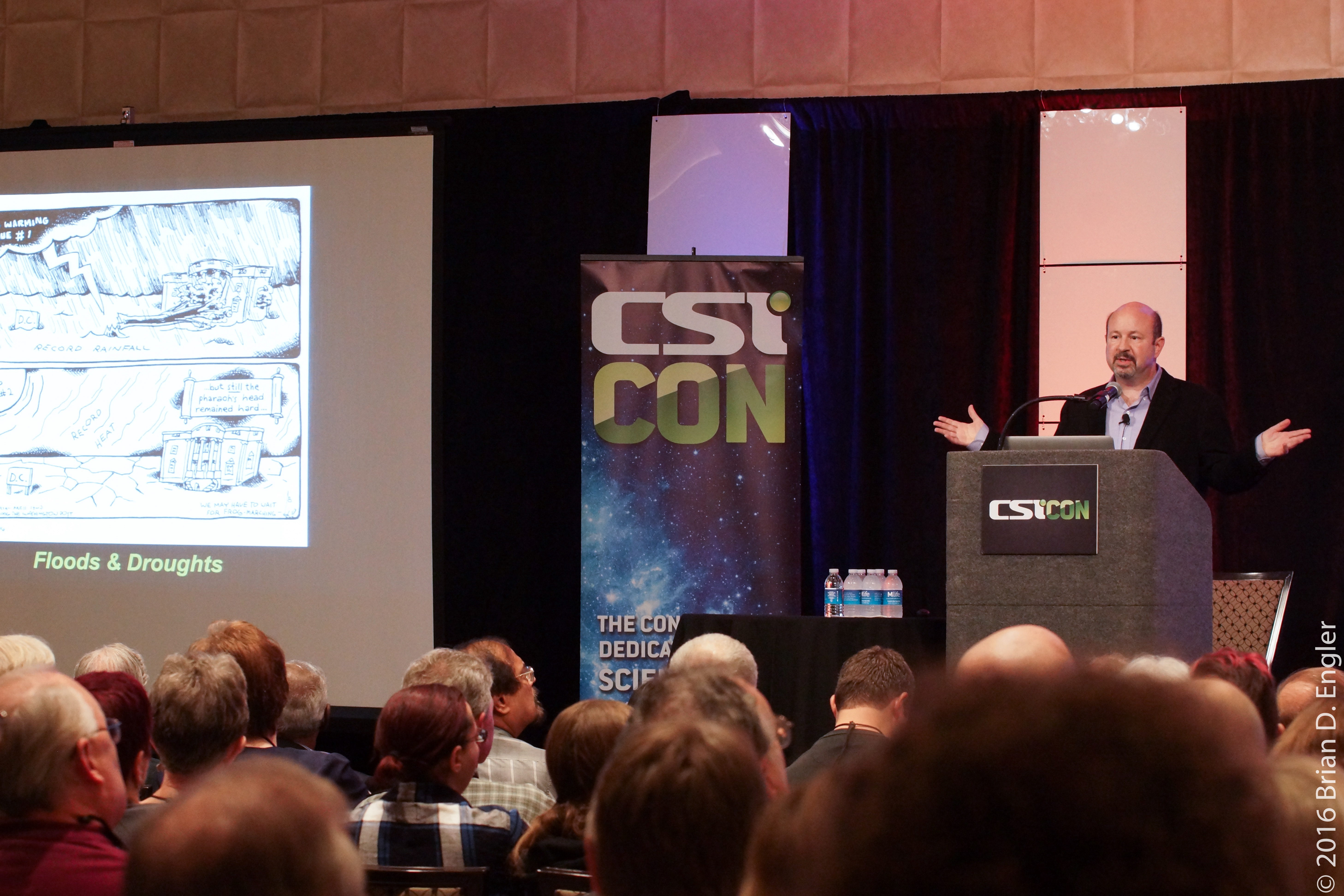 Climatologist and geophysicist Michael Mann discusses his book "The Madhouse Effect" at CSICon Las Vegas on October 28, 2016.